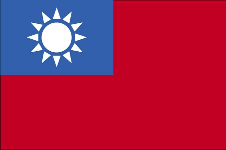 Image title: Flag of Taiwan Image from Public domain images website